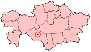 Locator map of the City of Baikonur and the Baikonur Cosmodrome — in southern Kazakhstan. Credits Made by User:Golbez based on a PD United Nations map. Province borders are different from the available CIA maps, but the UN map is several years newer.